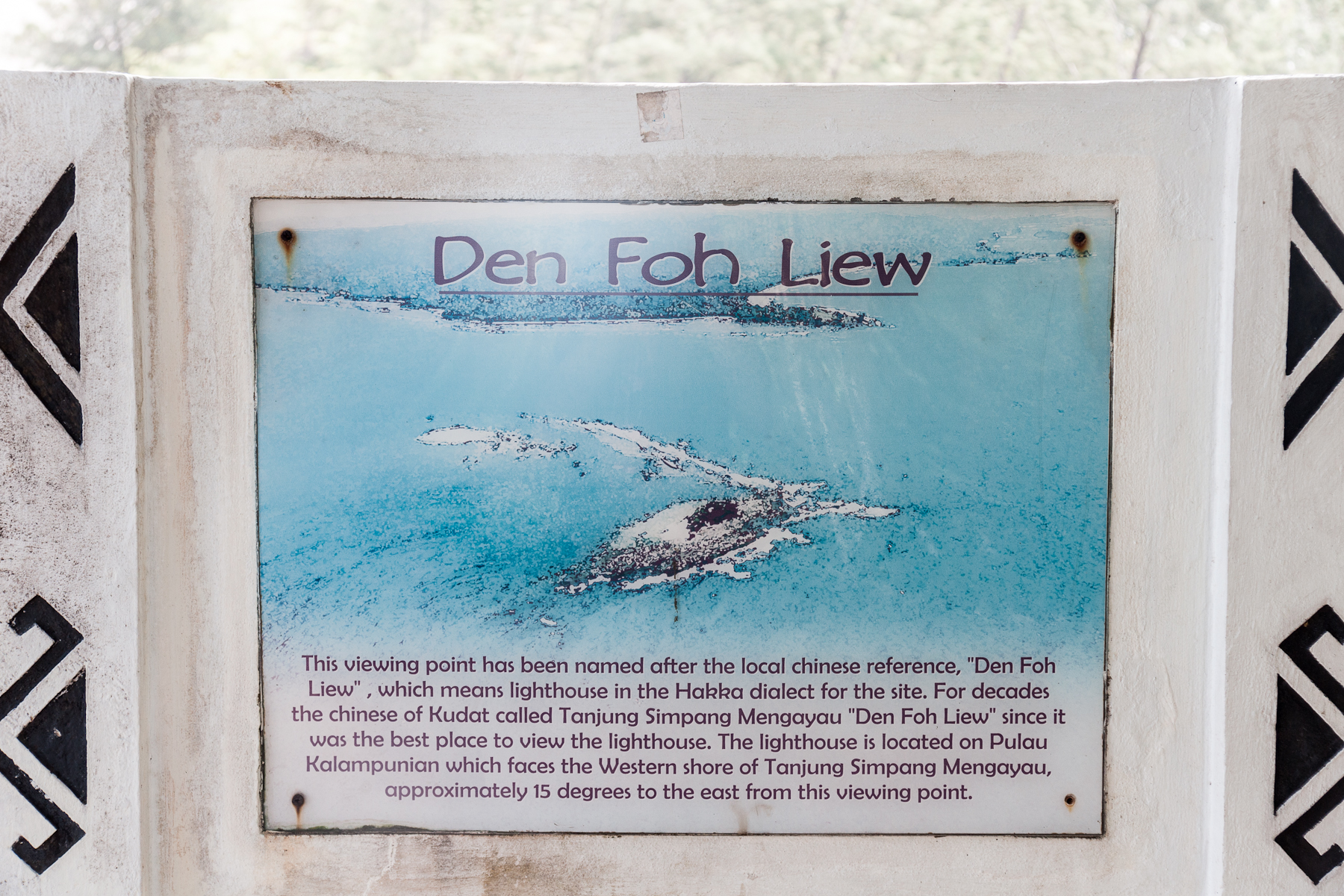 Kudat, Sabah: Tanjung Simpang Mengayau (Tip of Borneo)